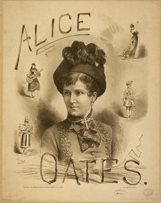 Lithographic poster advertising Alice Oates (1849-1887) - N.Y. : Metropolitan Litho. Studio, c1879. - Library of Congress Collection